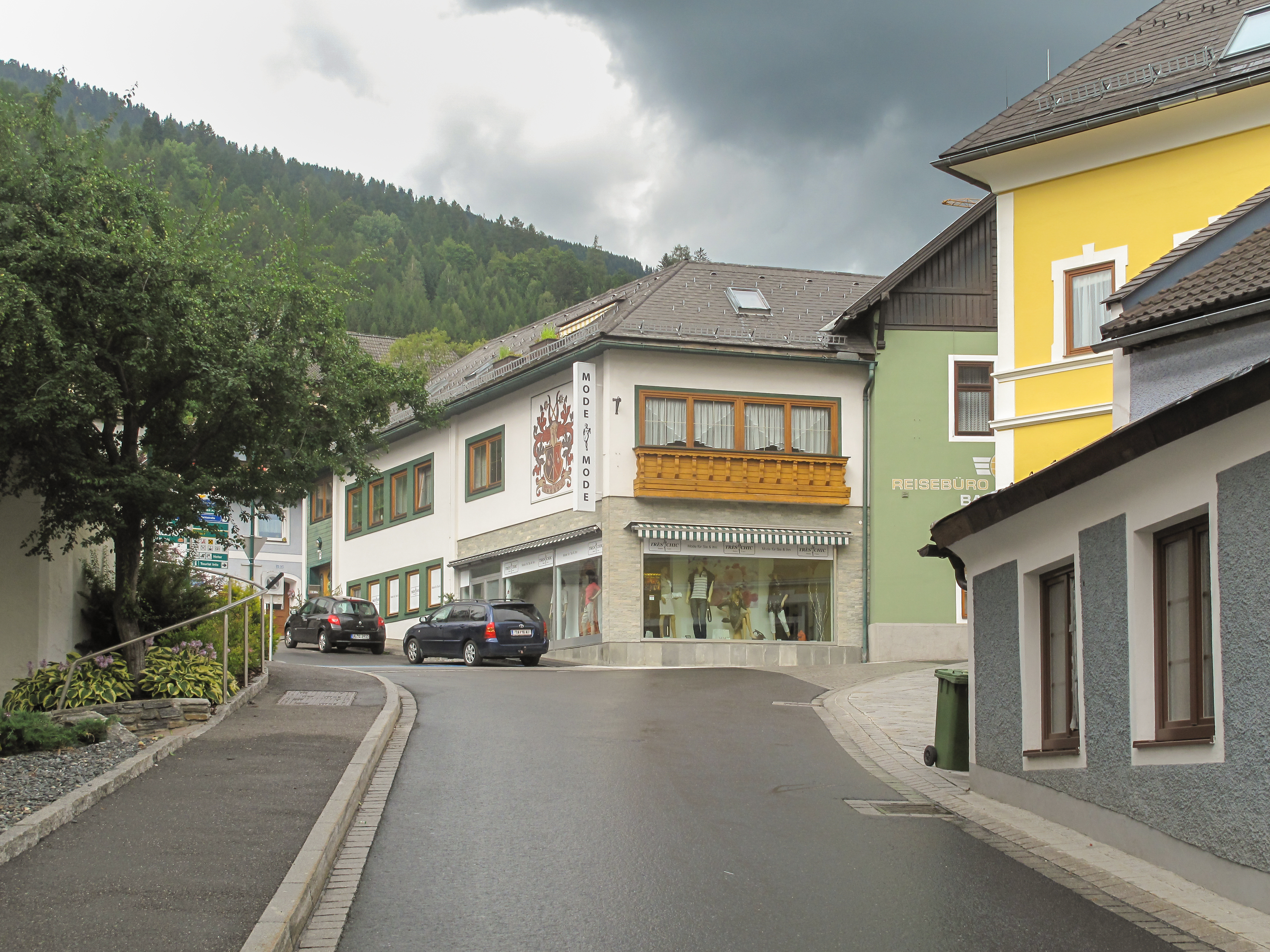 Sankt_Michael_im_Lungau,_view to a street_